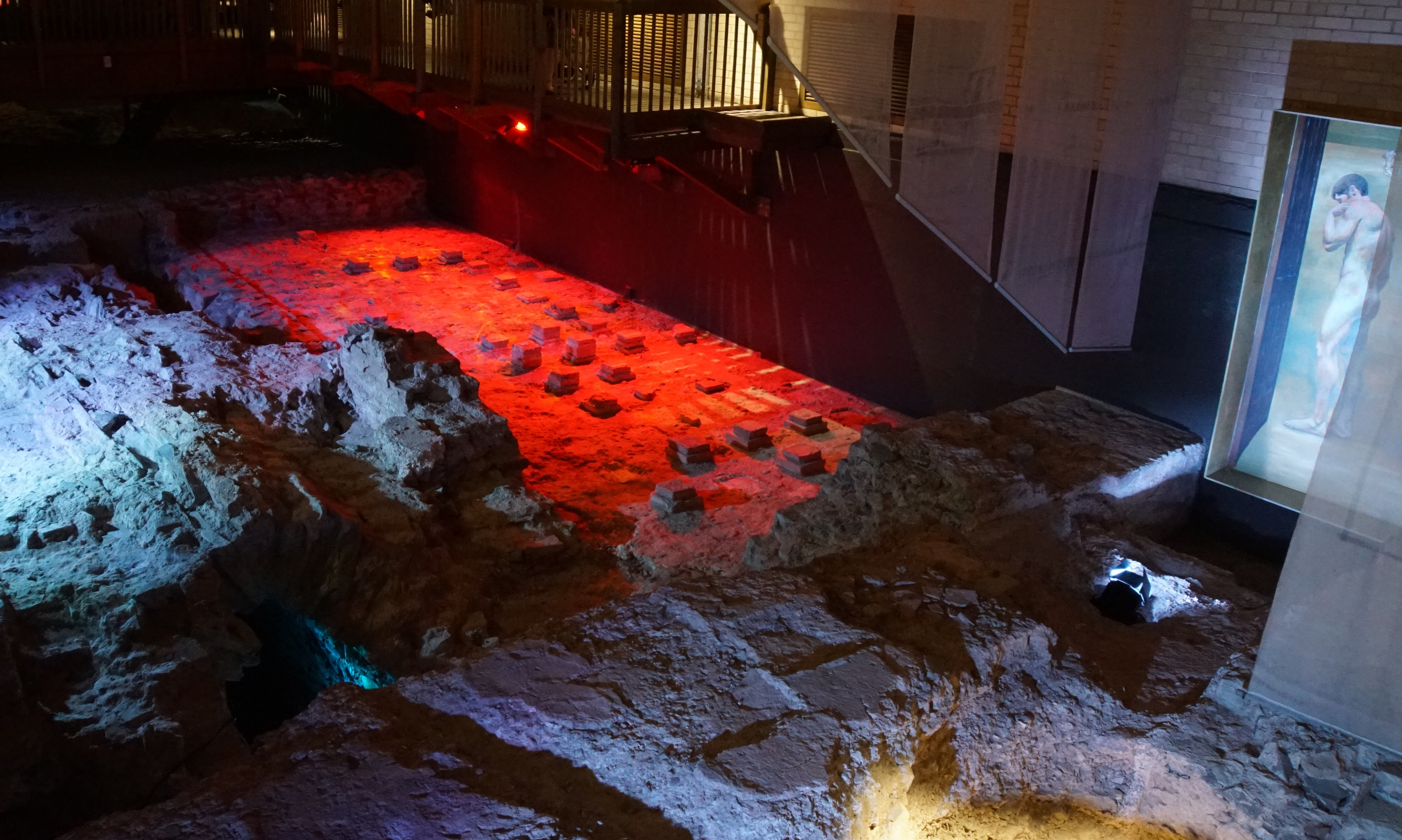 Roman Fortress Baths, Caerleon, Wales, United Kingdom. Apodyterium.